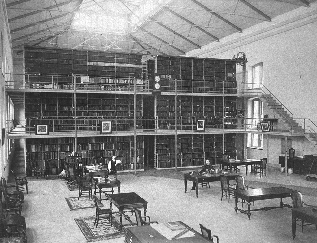 Library and Museum of the Surgeon General's Office Washington, D.C., John Shaw Billings (1838-1913) sits at a table on the right in the Library Hall; Prints and Photographs Call Number: Z AD6 U56 C26 no. FI1; Photograph ca. 1890